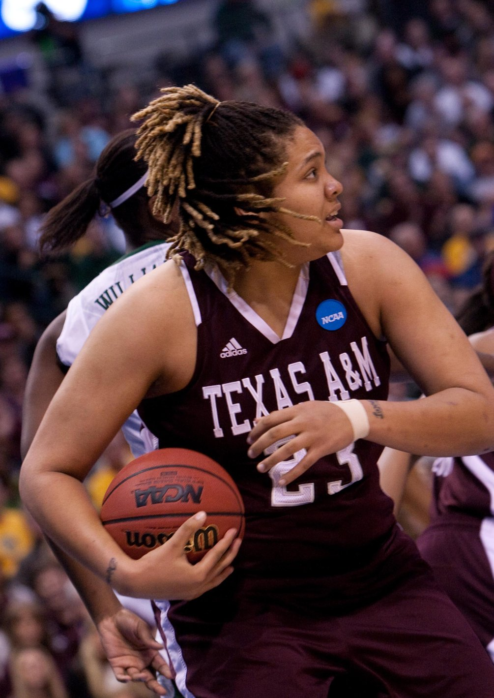 Picture of Danielle Adams in the 2011 NCAA Dallas Regional final, where Adams would help her team beat Baylor for a spot in the Final Four